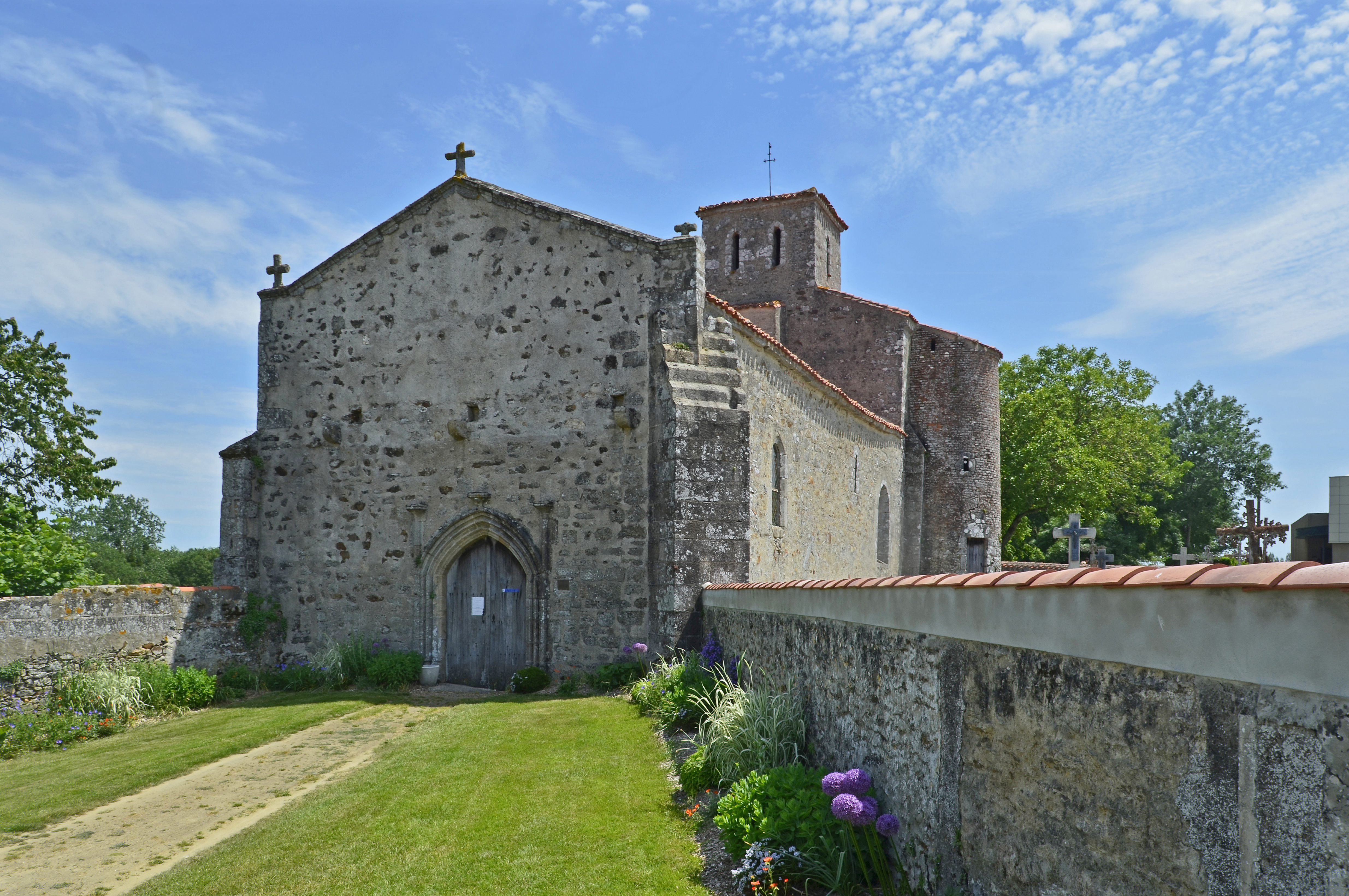 Saint-Christopher church - Mesnard-la-Barotière - Vendée, France